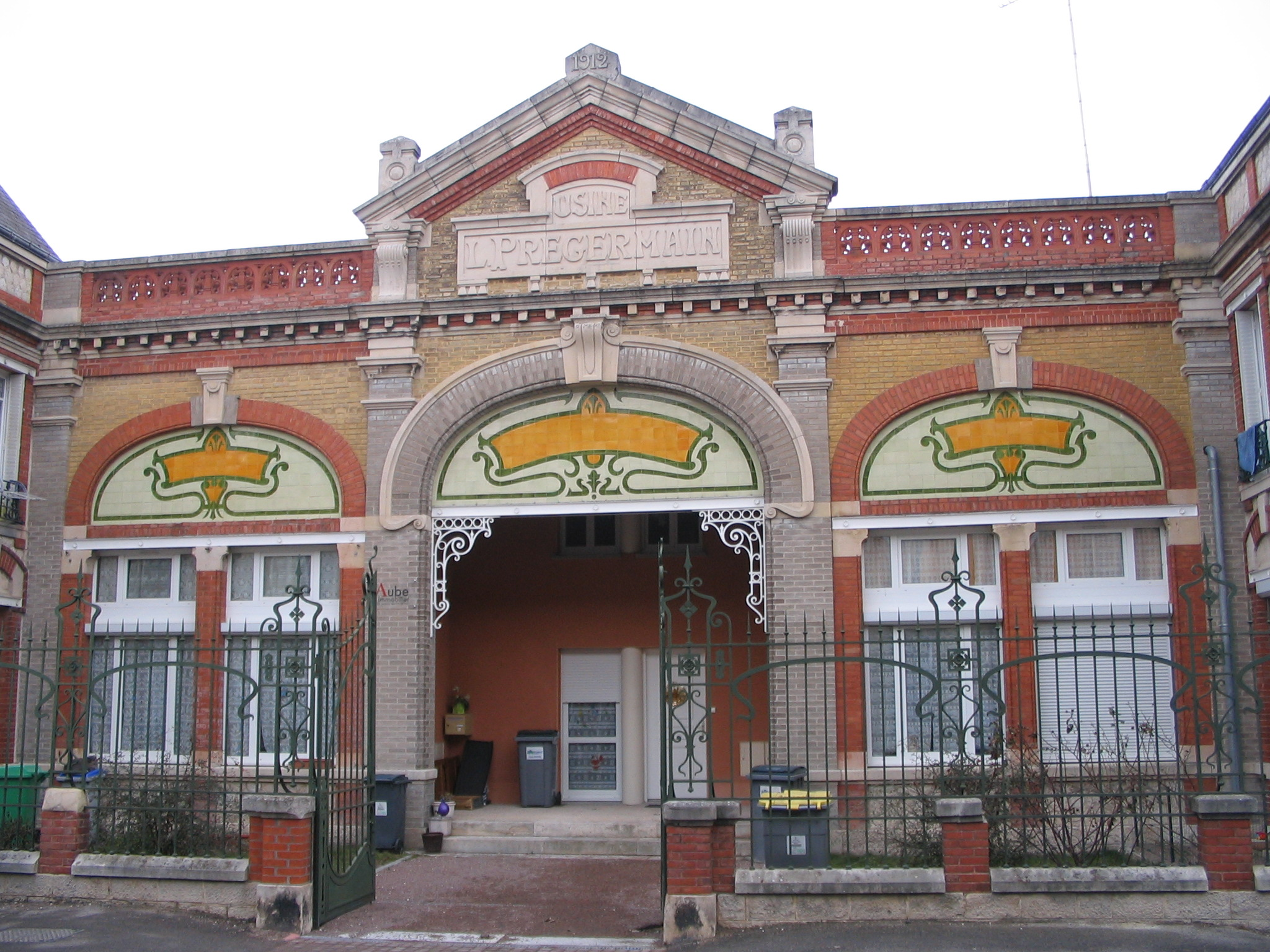 A former factory in Romilly-sur-Seine, Aube, France.